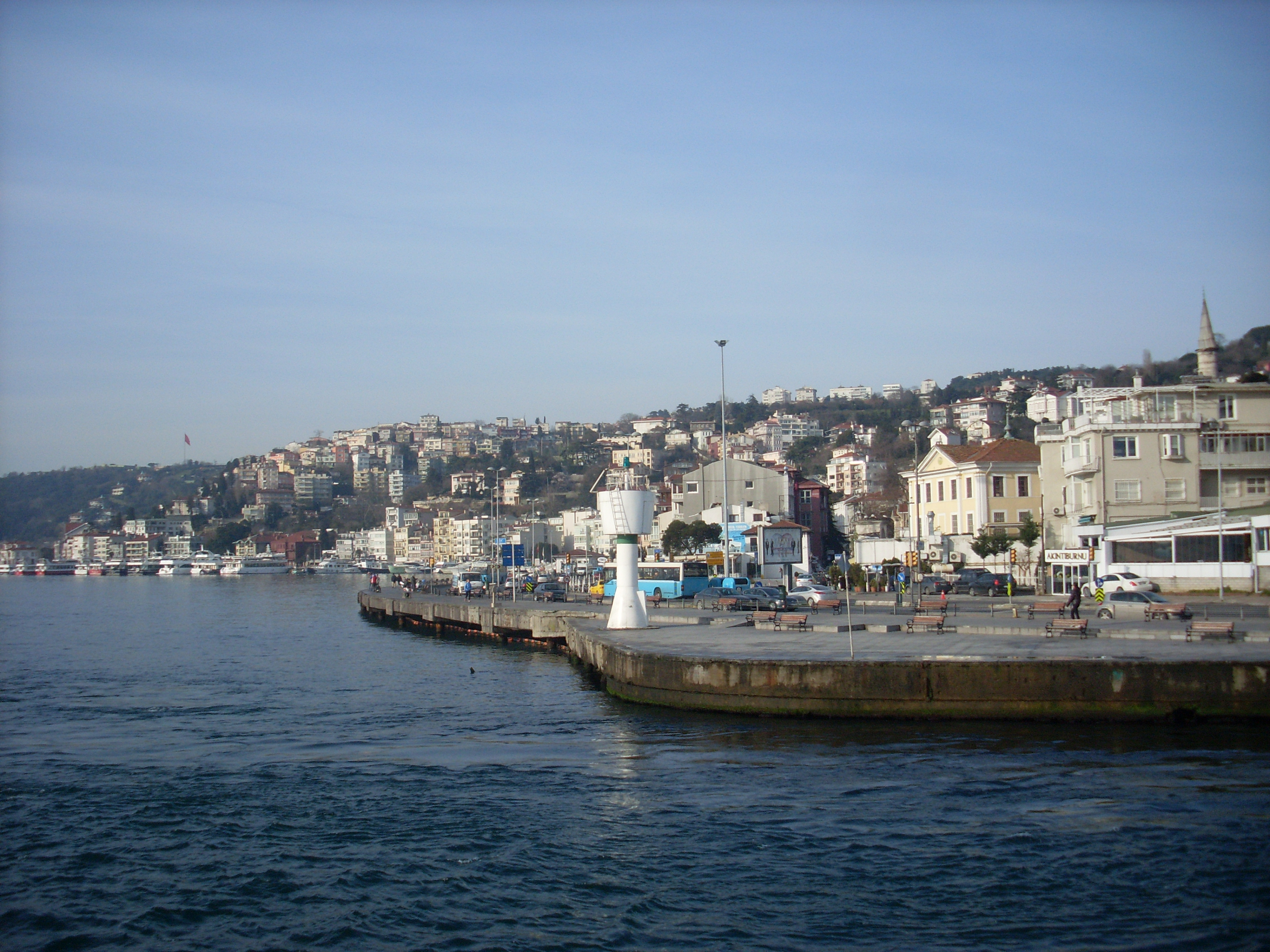 İstanbul - Arnavutköy, Beşiktaş r1 - feb 2013